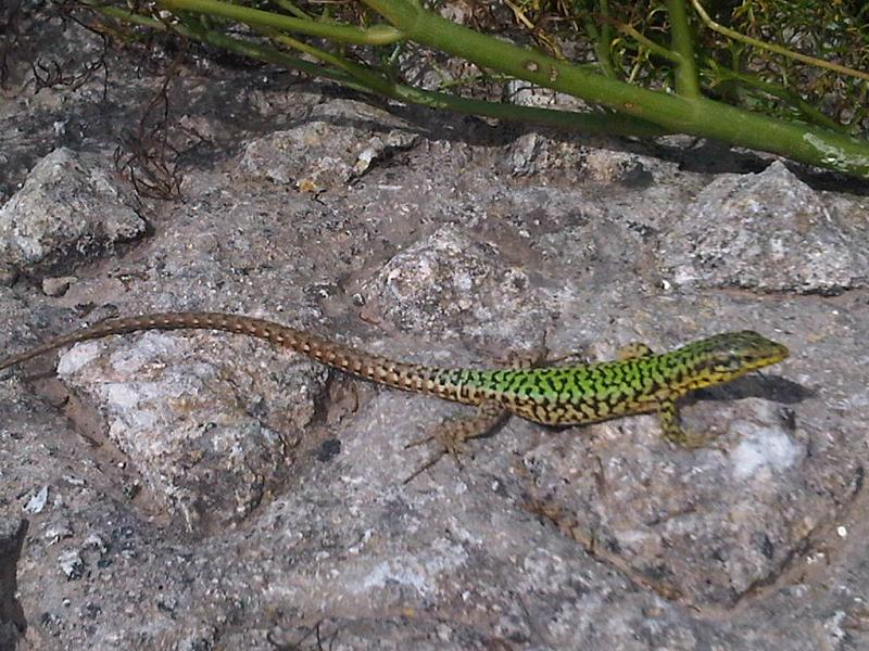 Filfola Lizard or Maltese Wall Lizard (Podarcis filfolensis ssp. maltensis) basking in the sun, on Gozo island, Republic of Malta.